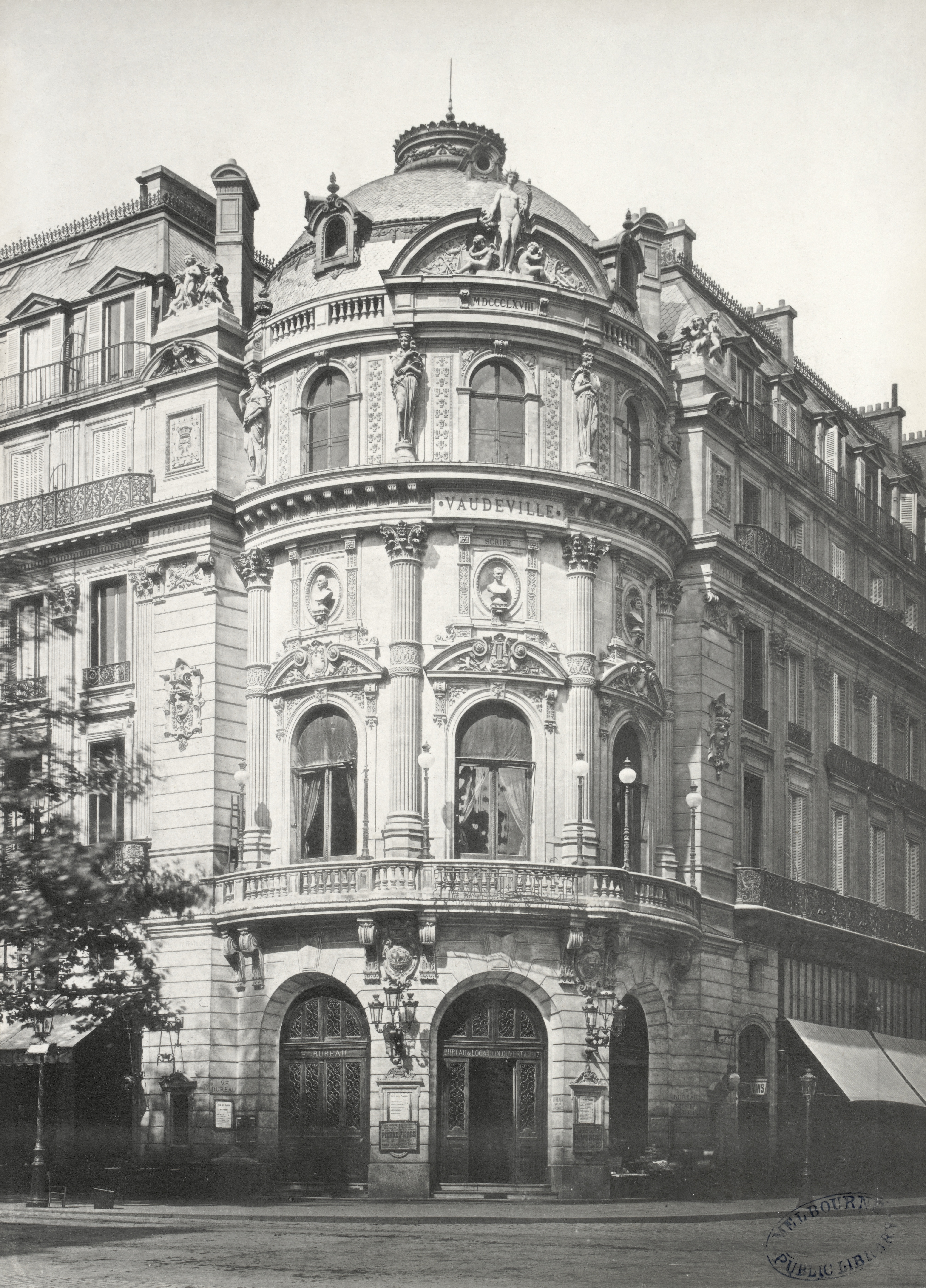 Looking across street towards corner three storey building with highly decorated facade.